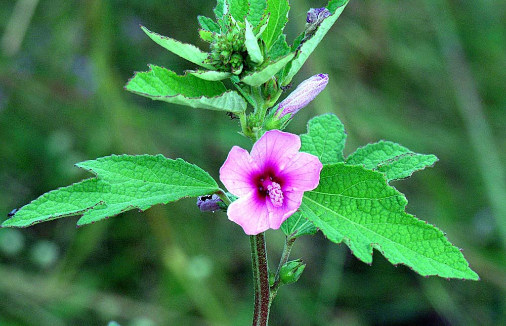 Known as Pink Pavonia, but also as Stinging Pavonia, this is a wide-ranging weed from tropical Africa. Photo from near Songea, Tanzania.